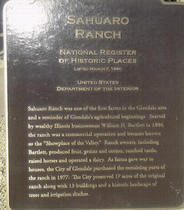 National Register of Historic Places Marker at Sahuaro Ranch in Glendale, Arizona. Plaque